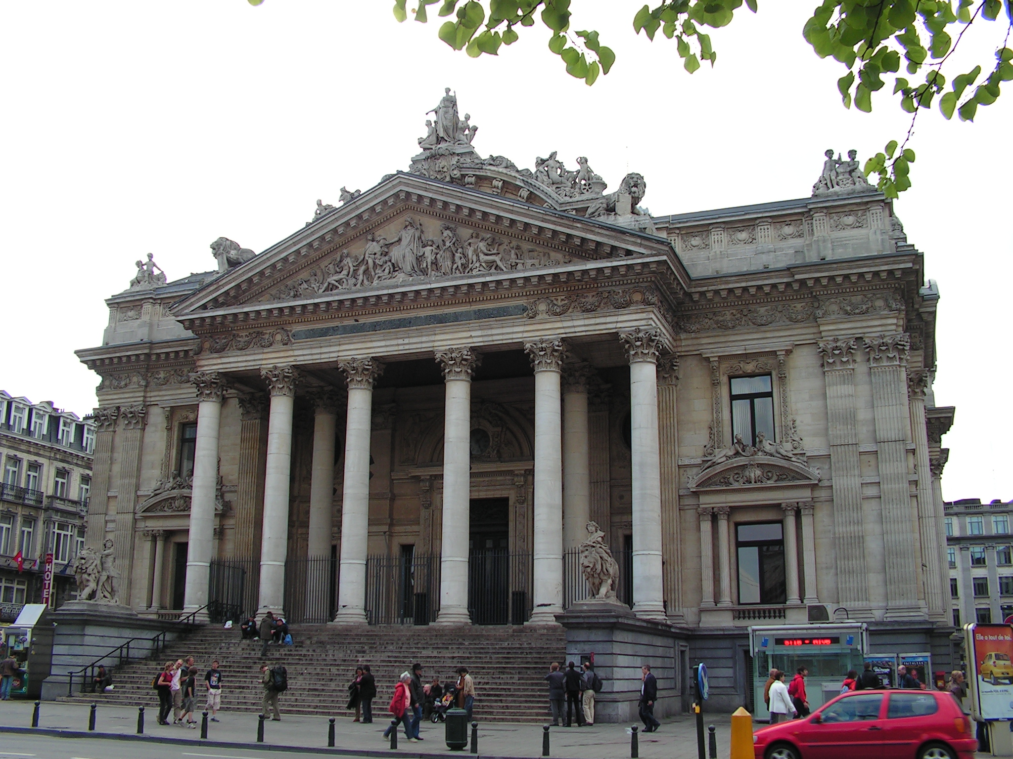 Building of the Brussel Stock Exchange (May 21st 2005) Author: Snowdog